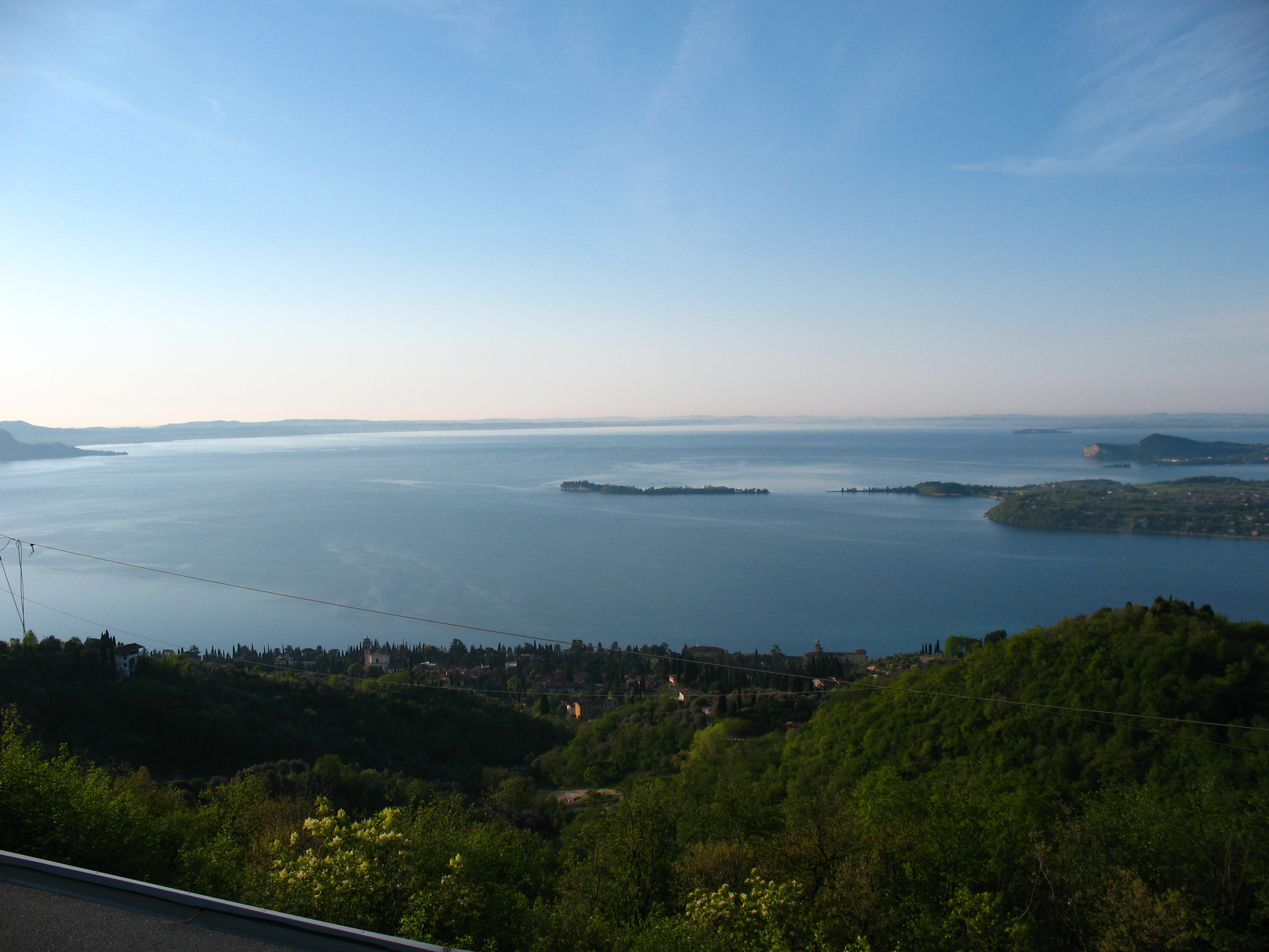 Lake Garda